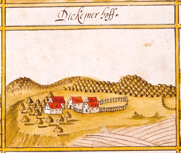 View of Hof Dicke, Stammheim, Calw, from the forest register books created by Andreas Kieser